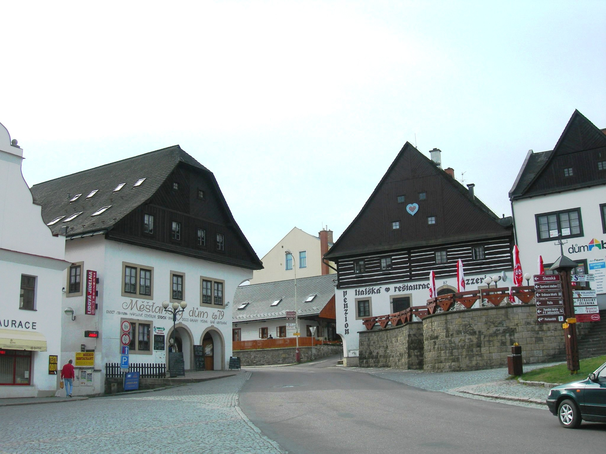 Jablonne, houses on the marketplace